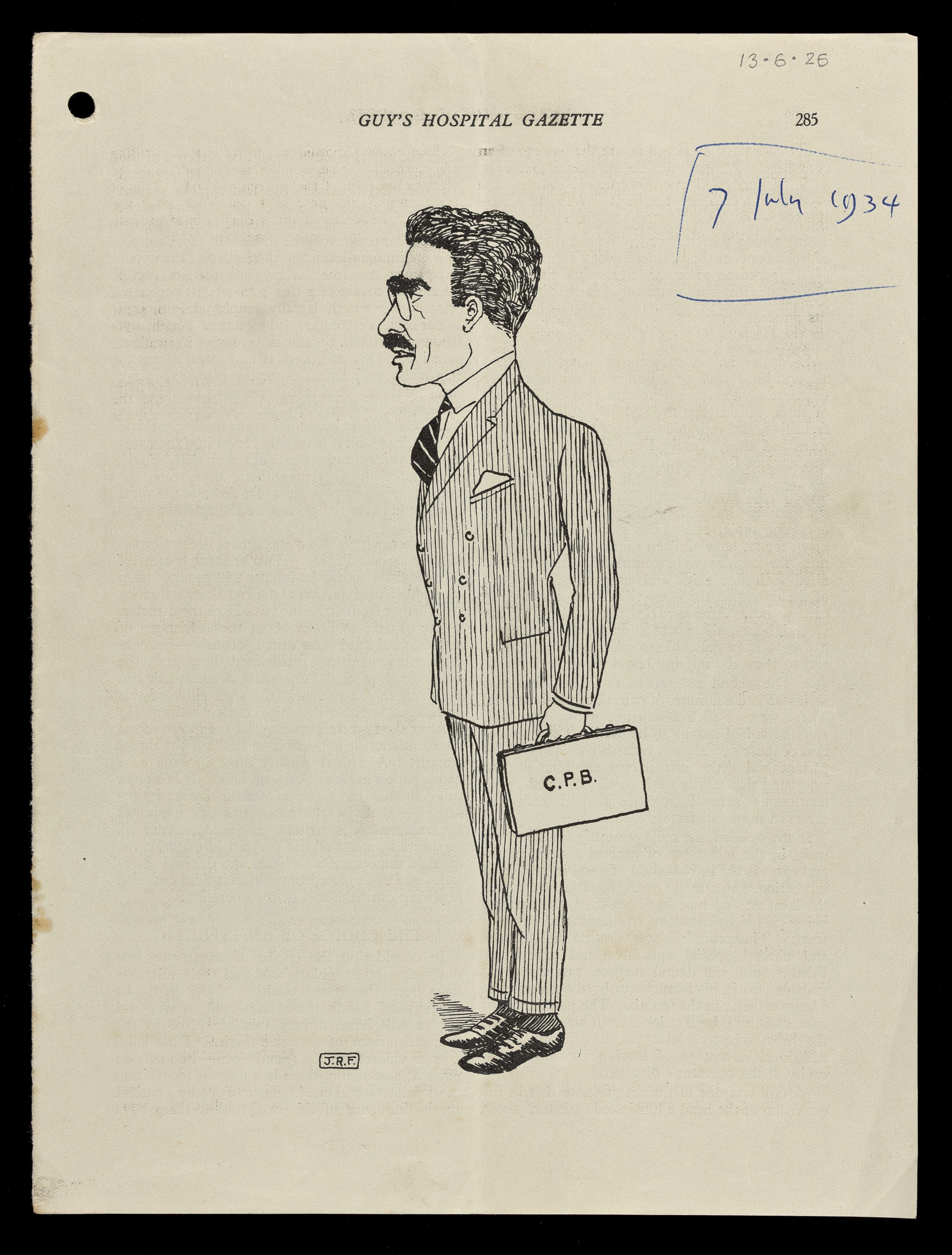 Cartoon of Carlos Paton Blacker, a psychiatrist and eugenicist who played a crucial role in family planning in Britain during the 20th century. Reproduced for Guy's Hospital Gazette - Blacker worked at the hospital as a psychiatrist from 1927 to 1936. This image bears the annotation '7 July 1934'. Digitised for CODEBREAKERS, MAKERS OF MODERN GENETICS Archives & Manuscripts